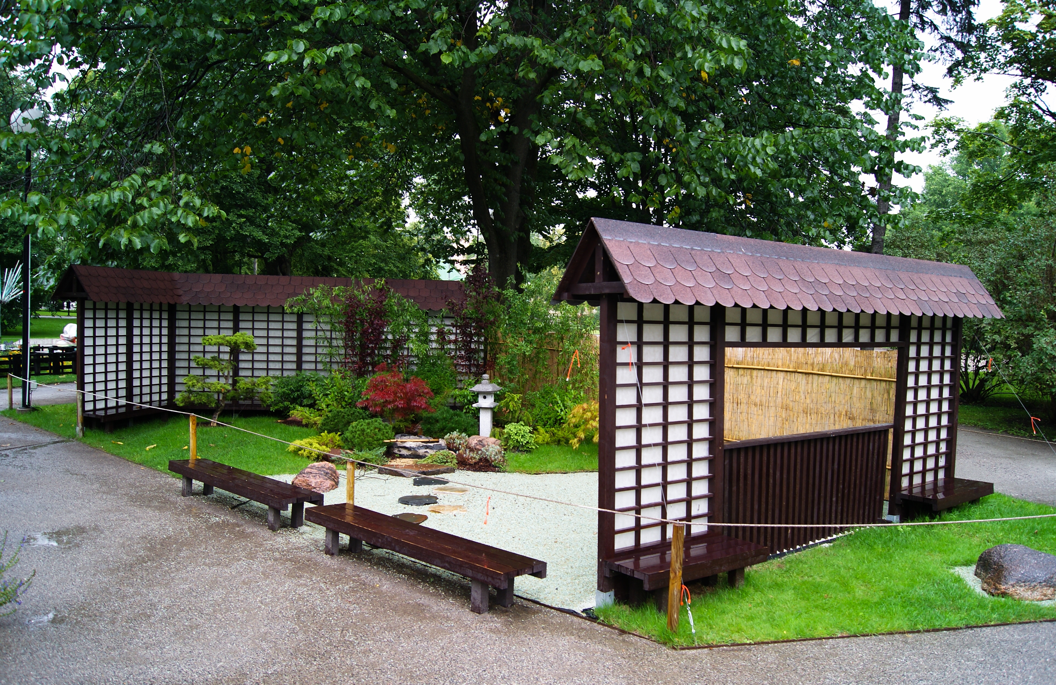 Garden "Japanese leitmotif" by Lithuanians at the Tallinn Flower Festival